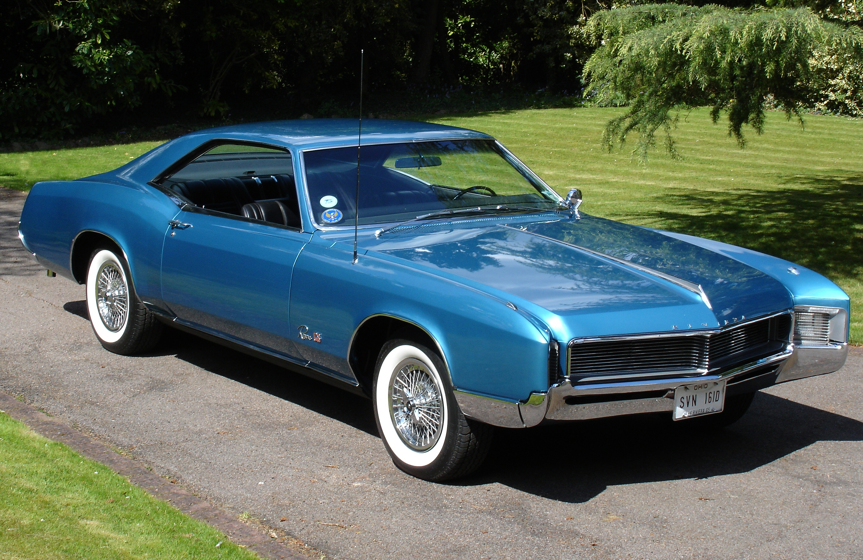 View of 1966 Buick Riviera taken in spring 2009 - This car was shipped to the UK in 1995 and has been extensively renovated